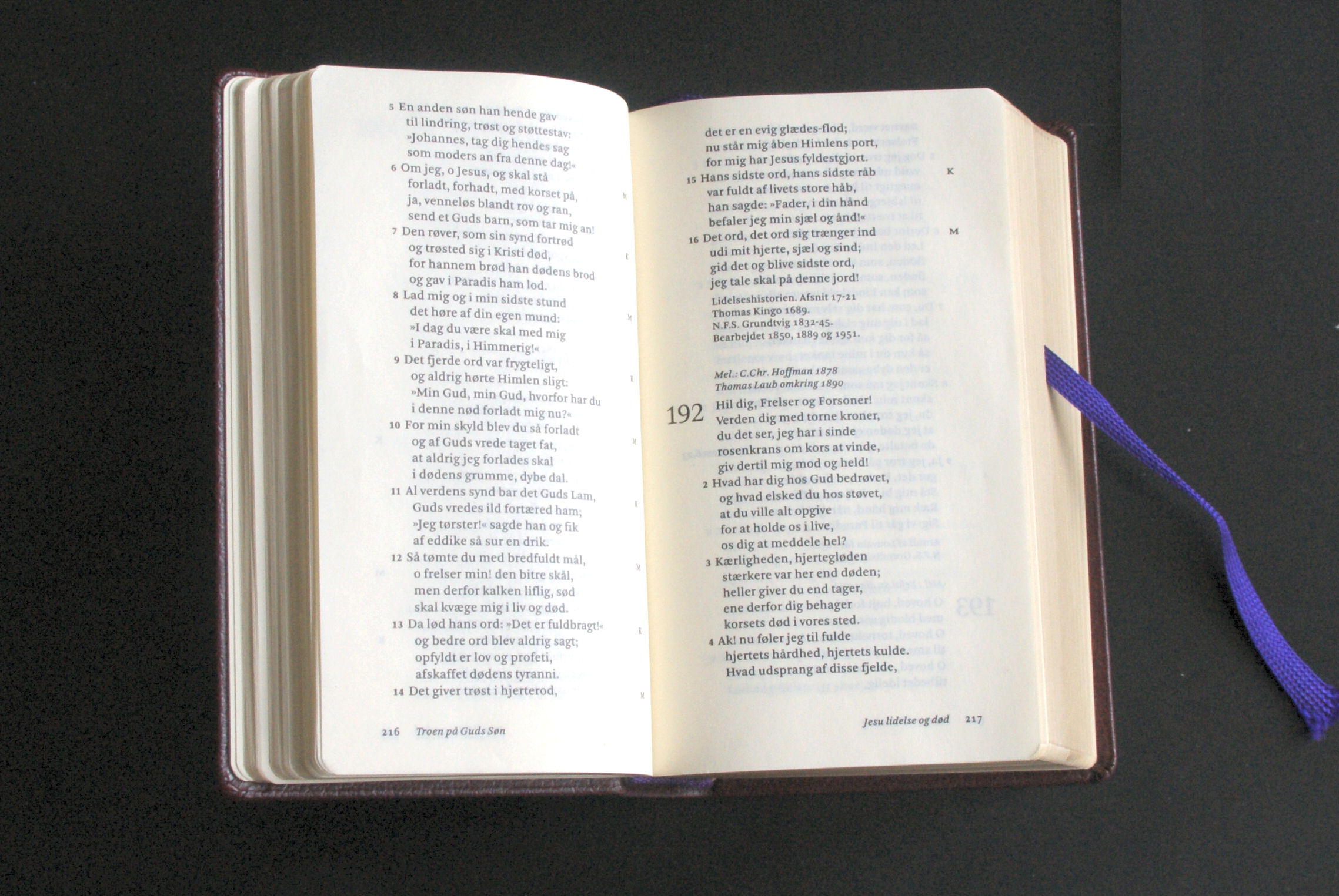 Hymnal of the Evangelical Lutheran Church in Denmark